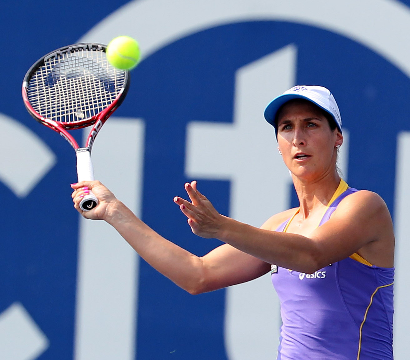 Citi Open Tennis July 29, 2011